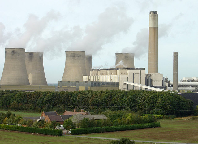 View from Winking Hill